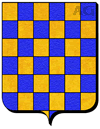 Coat of arms family de Durat France